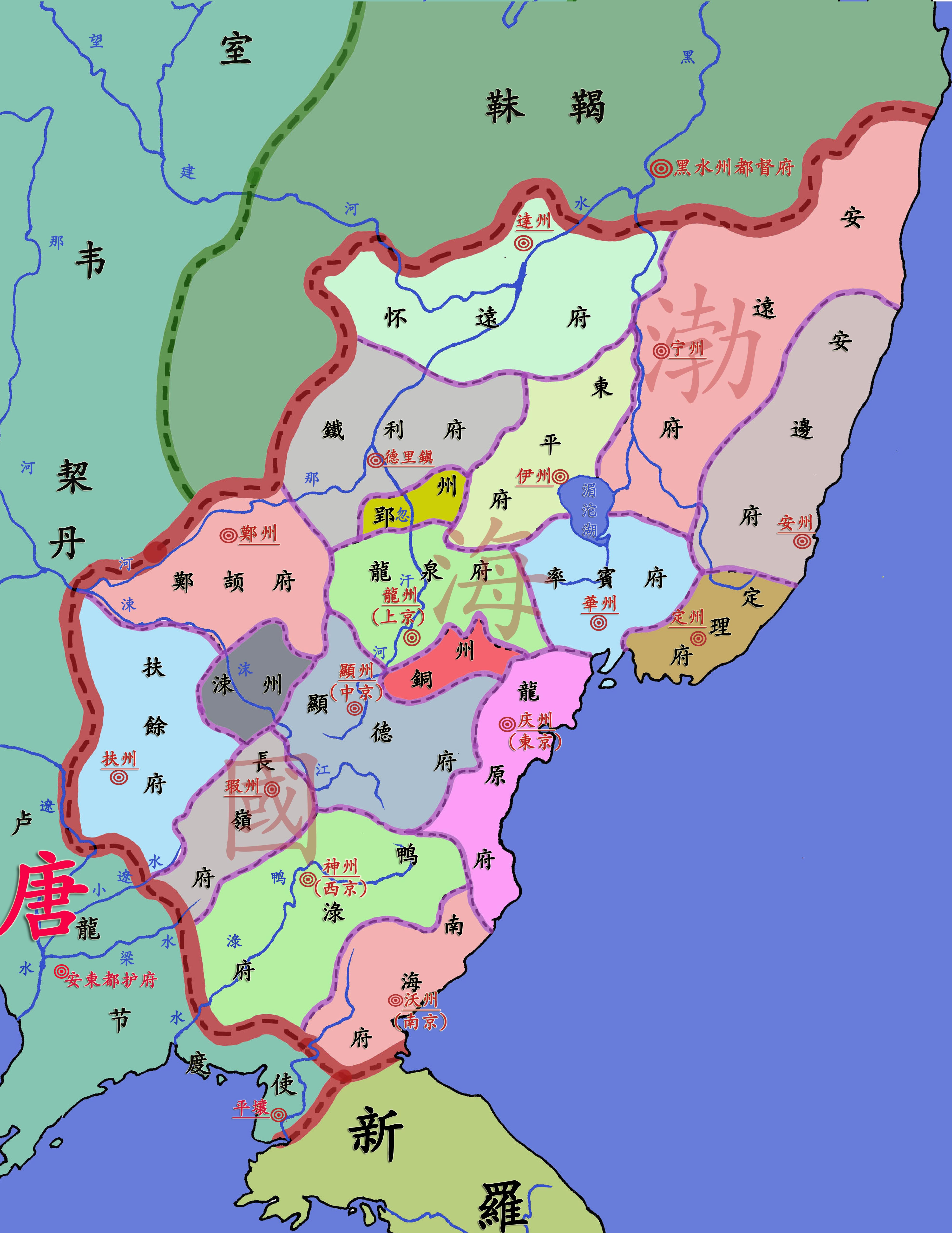 Map_of_Bohai_(渤海國).jpg